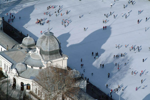 Ice Rink Budapest, aerial photography